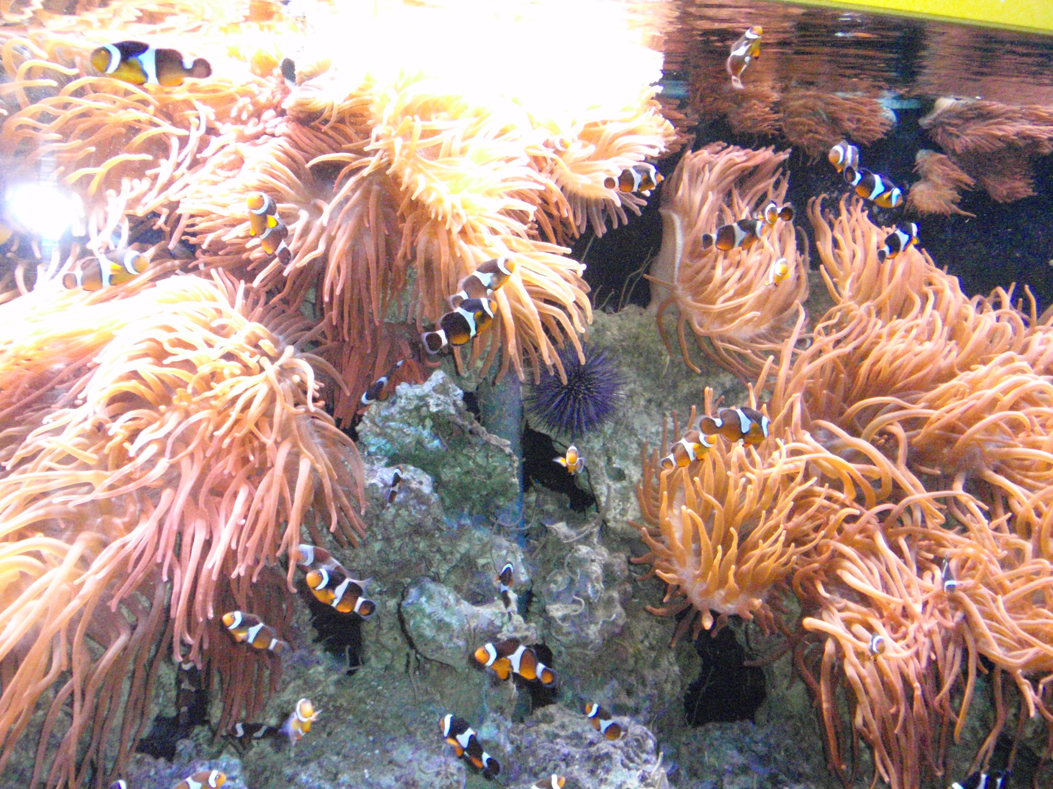 Clownfish